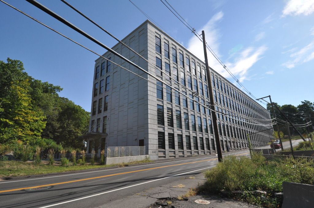 Minterburn Mill, aka the Roosevelt Mill, Rockville (Vernon), Connecticut.